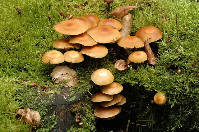 Kuehneromyces mutabilis from Commanster, Belgium. The determination of the species shown in this picture has been verified.